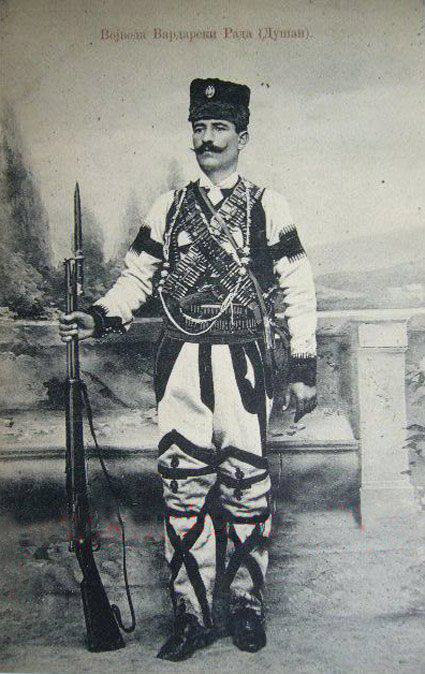 Portrait of serbian chetnik Rade Radivoevski